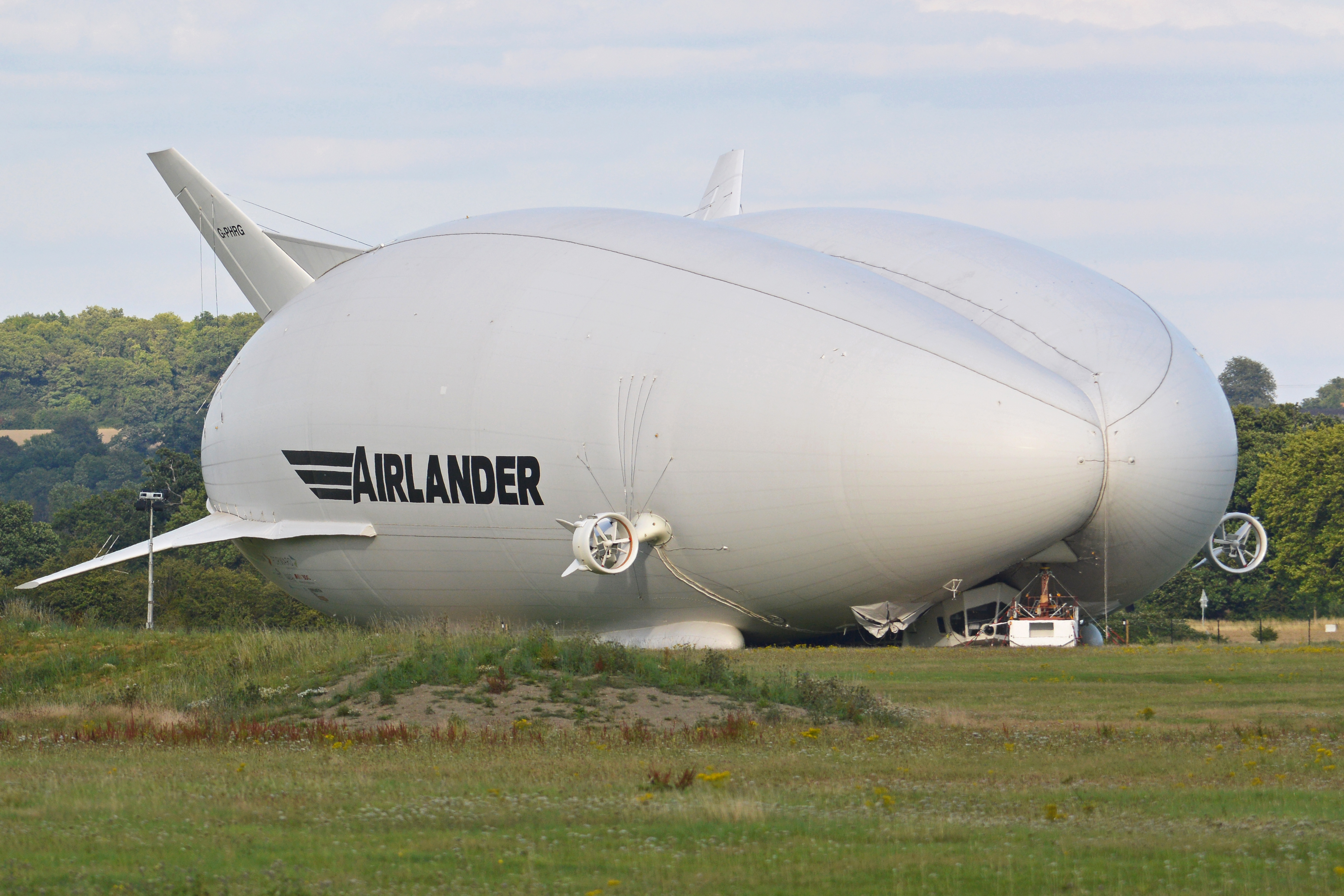 c/n 001. A Hybrid Airship with wing and tail surfaces, the Airlander 10 was originally built in 2012 as the HAV304 for the United States Army's Long Endurance Multi-intelligence Vehicle (LEMV) programme. Sold back to Hybrid Air Vehicles (HAV) at the completion of the programme, she returned to the UK and made her first test flight as the ‘Airlander 10’ on 17th August 2016. She has now completed four test flights and is seen moored outside at Cardington Airfield, Bedfordshire, UK. 6th August 2017